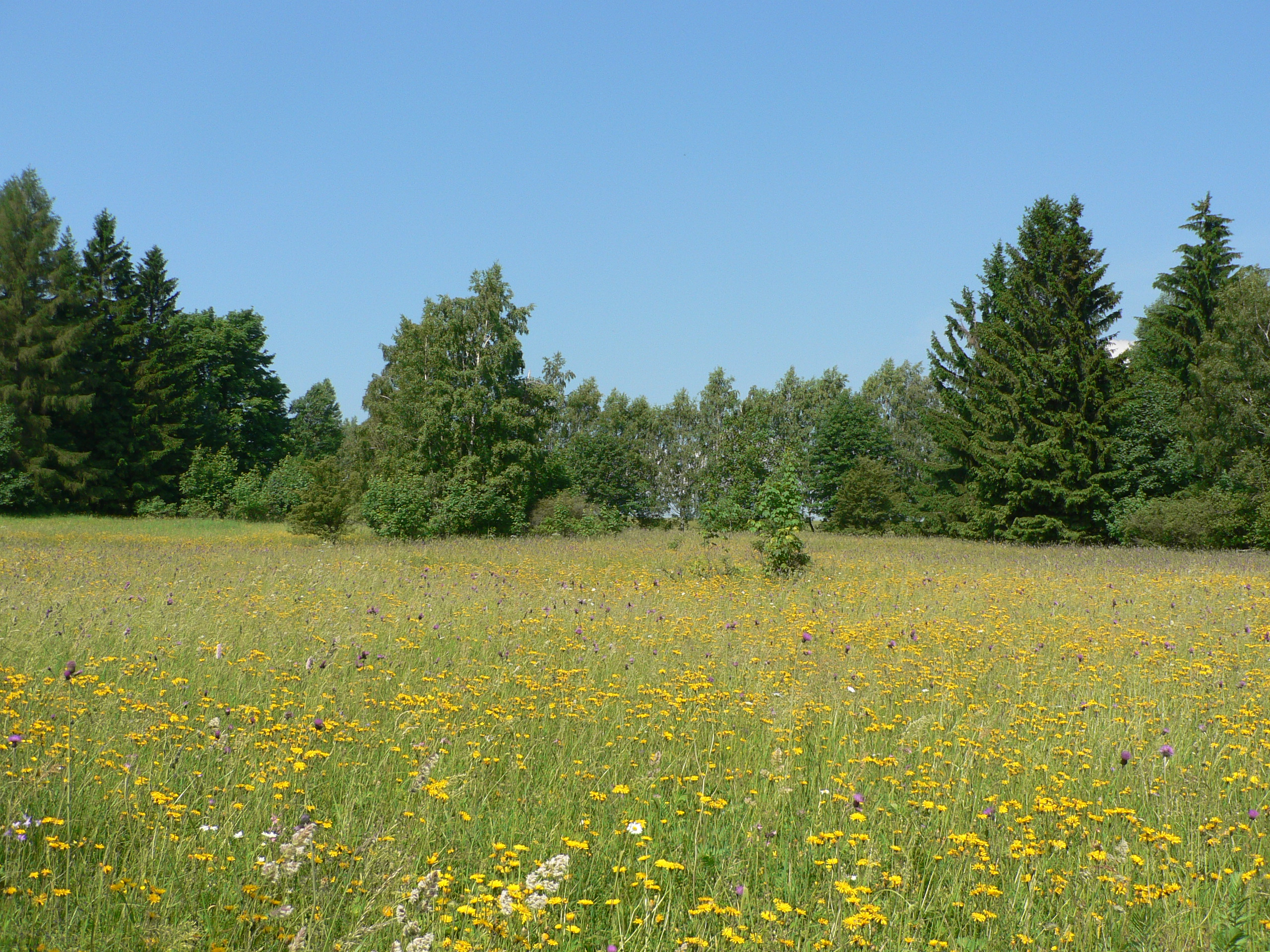 Morgenland, the Jeseniky Mountains, Czech Republic